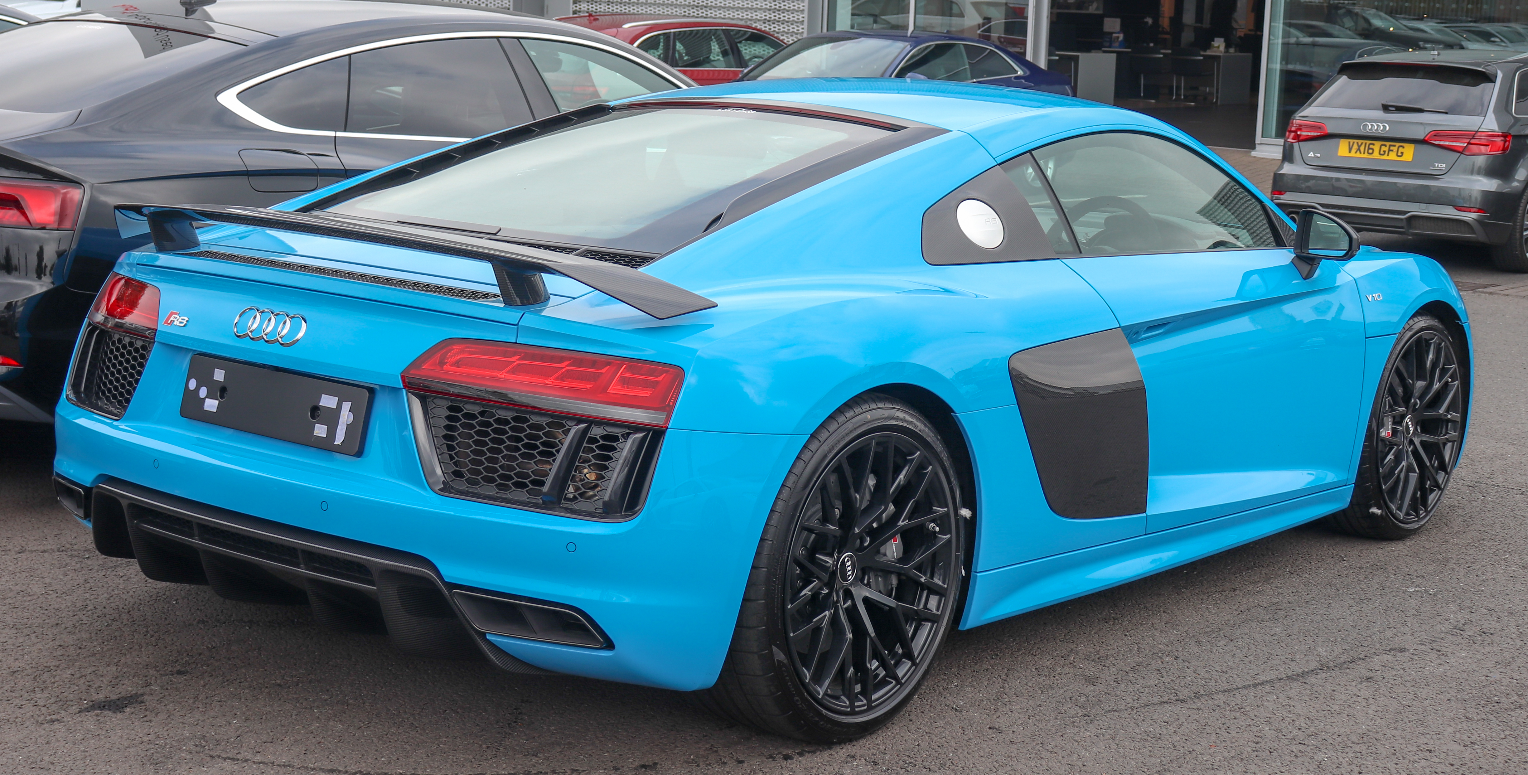 2018 Audi R8 Coupe V10 plus Rear Taken in Stratford-upon-Avon